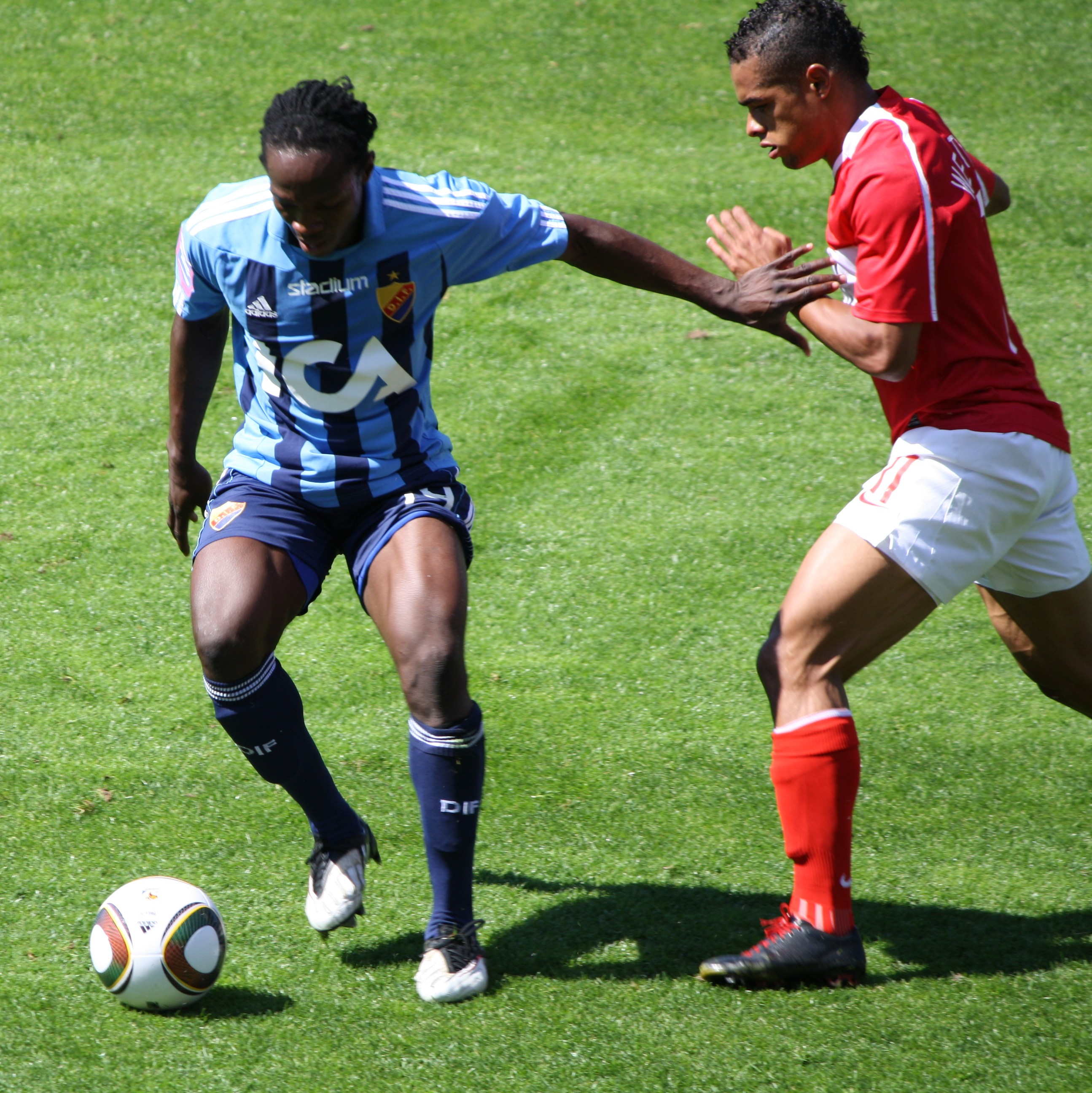 Swedish defender Kebba Ceesay and brazilian forward Welliton struggling for the ball.